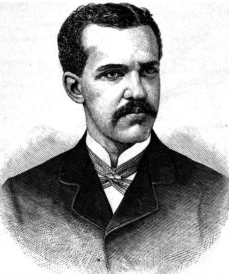 P. Henry Dugro, New York Congressman